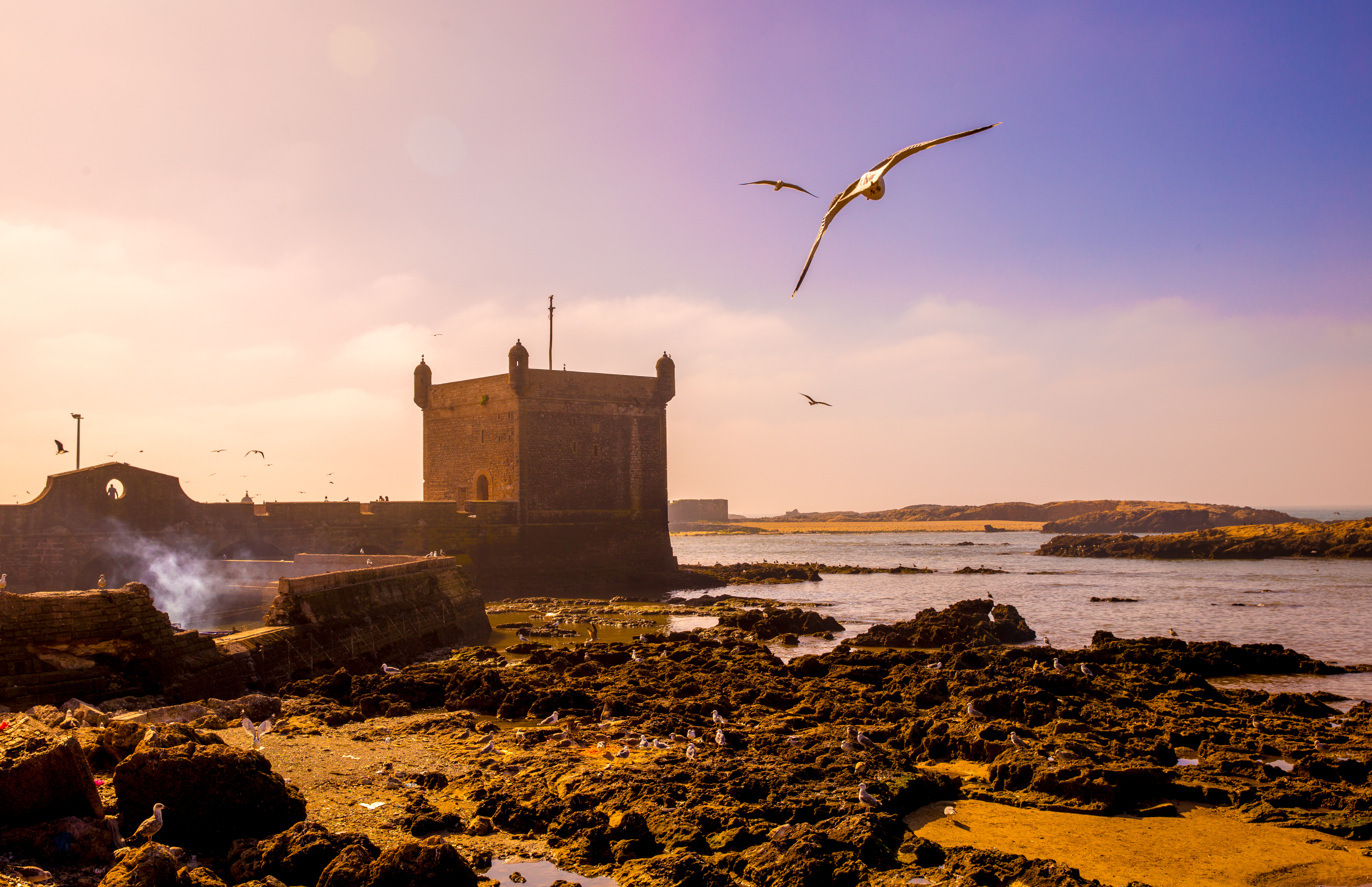 A misty day at the fortress